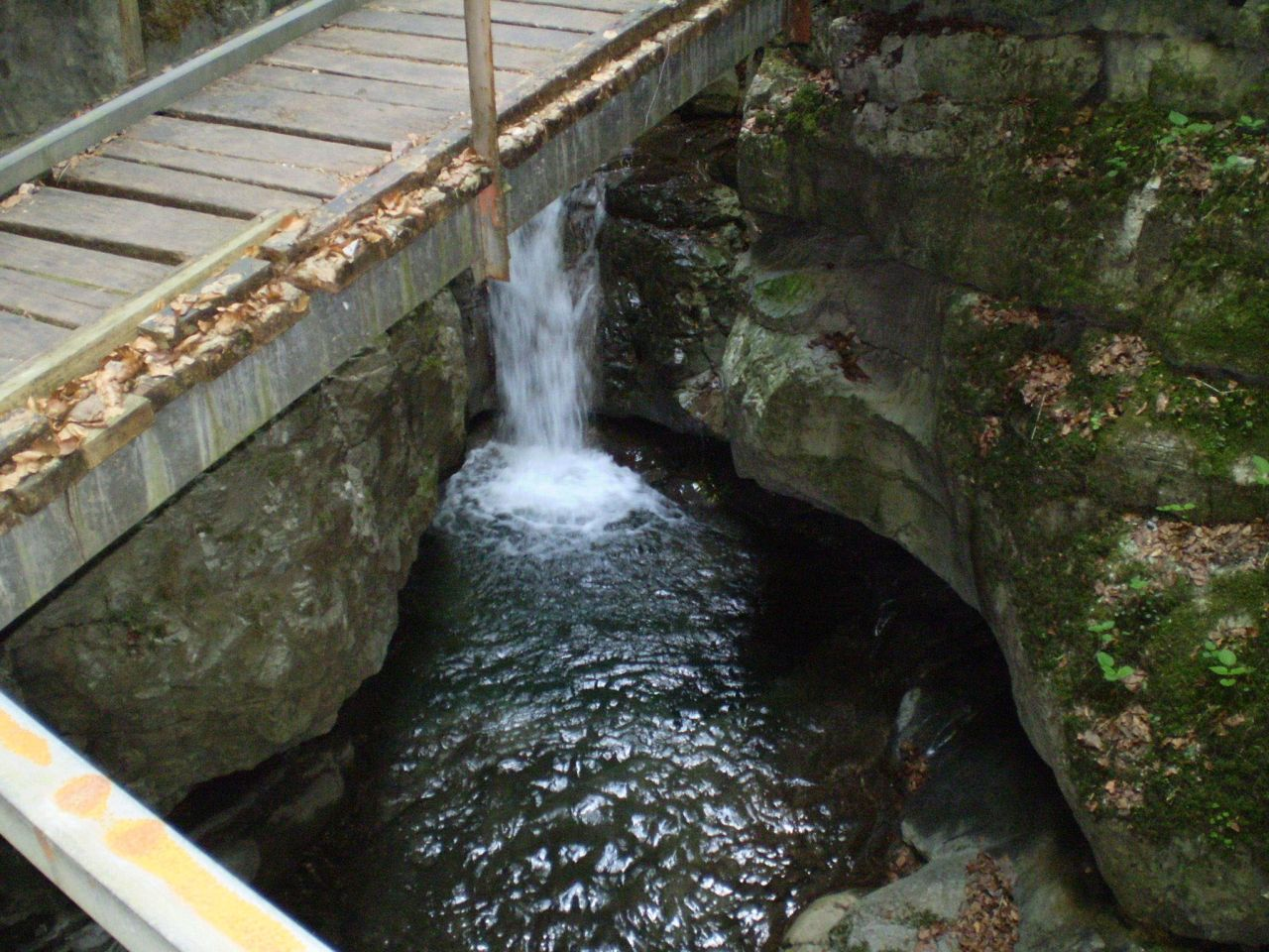 SKRAD Vražji prolaz (The Devil's pass) - Zeleni vir (The Green Whirlpool)